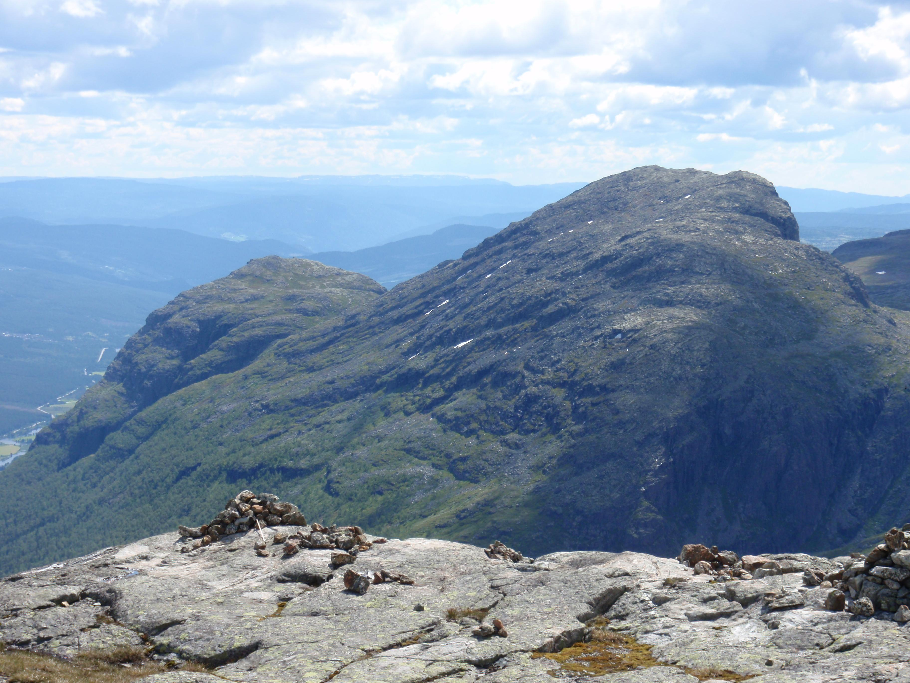 Two mountains included in the Hemsedal Top 20: Veslehorn (the left and lower peak) and Storhorn (the right and highest peak). The picture is taken from the top of Totten.